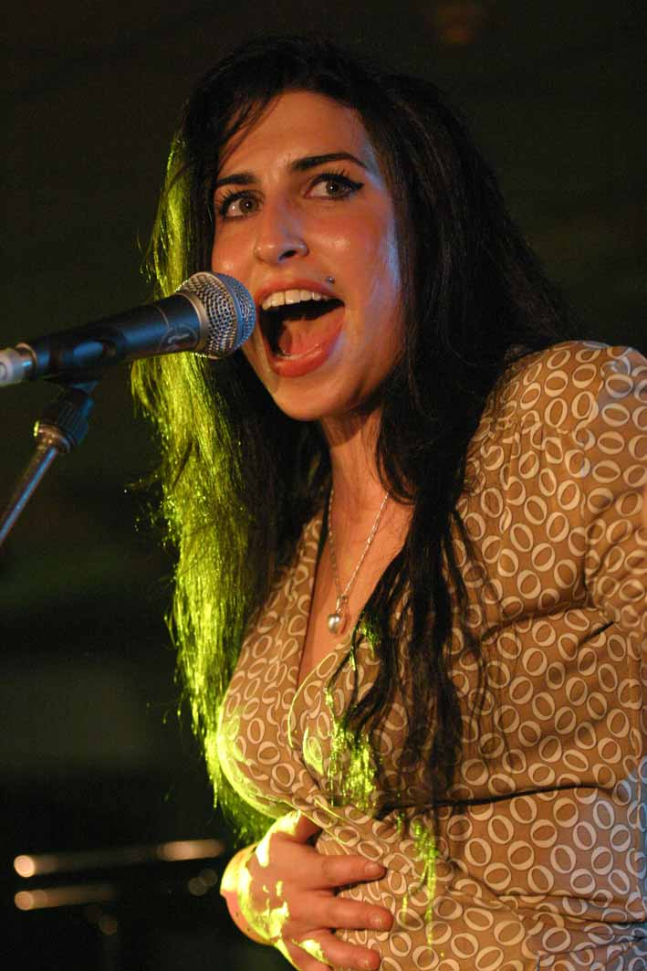 Amy Winehouse in concert at the North Sea Jazz Festival in The Hague, July 2004